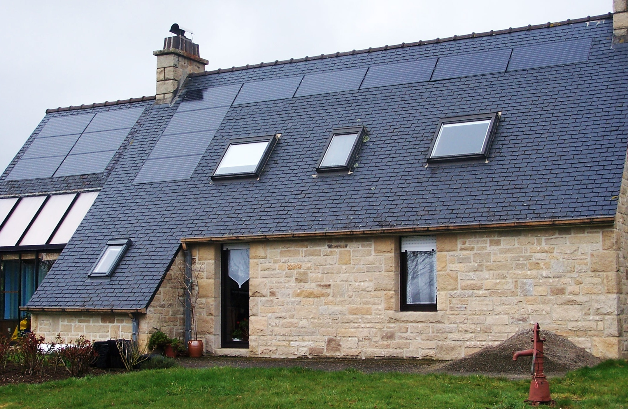 hybrid inverter in house